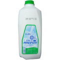 Galón leche las moras